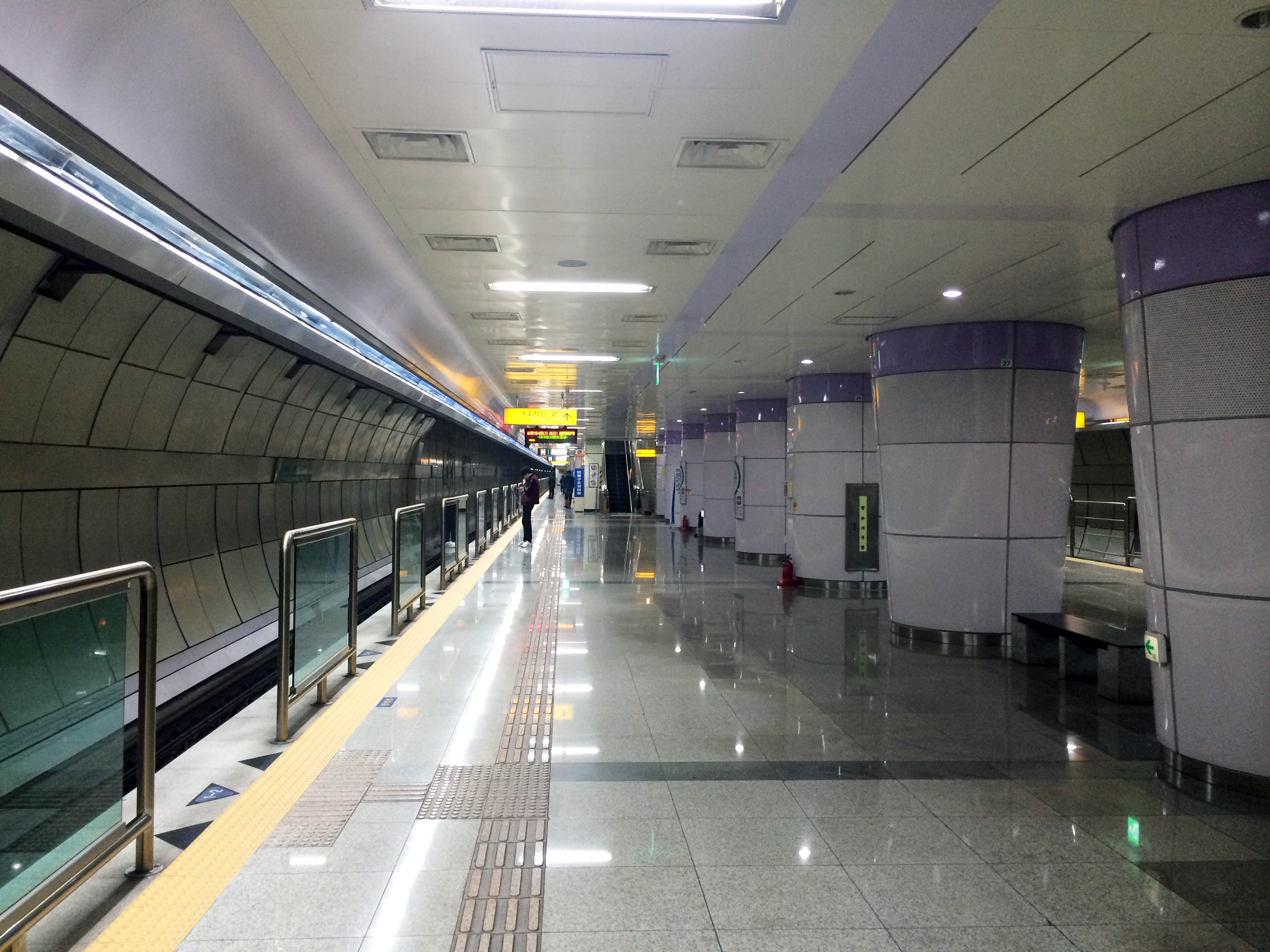 Platform of Sinnam Station